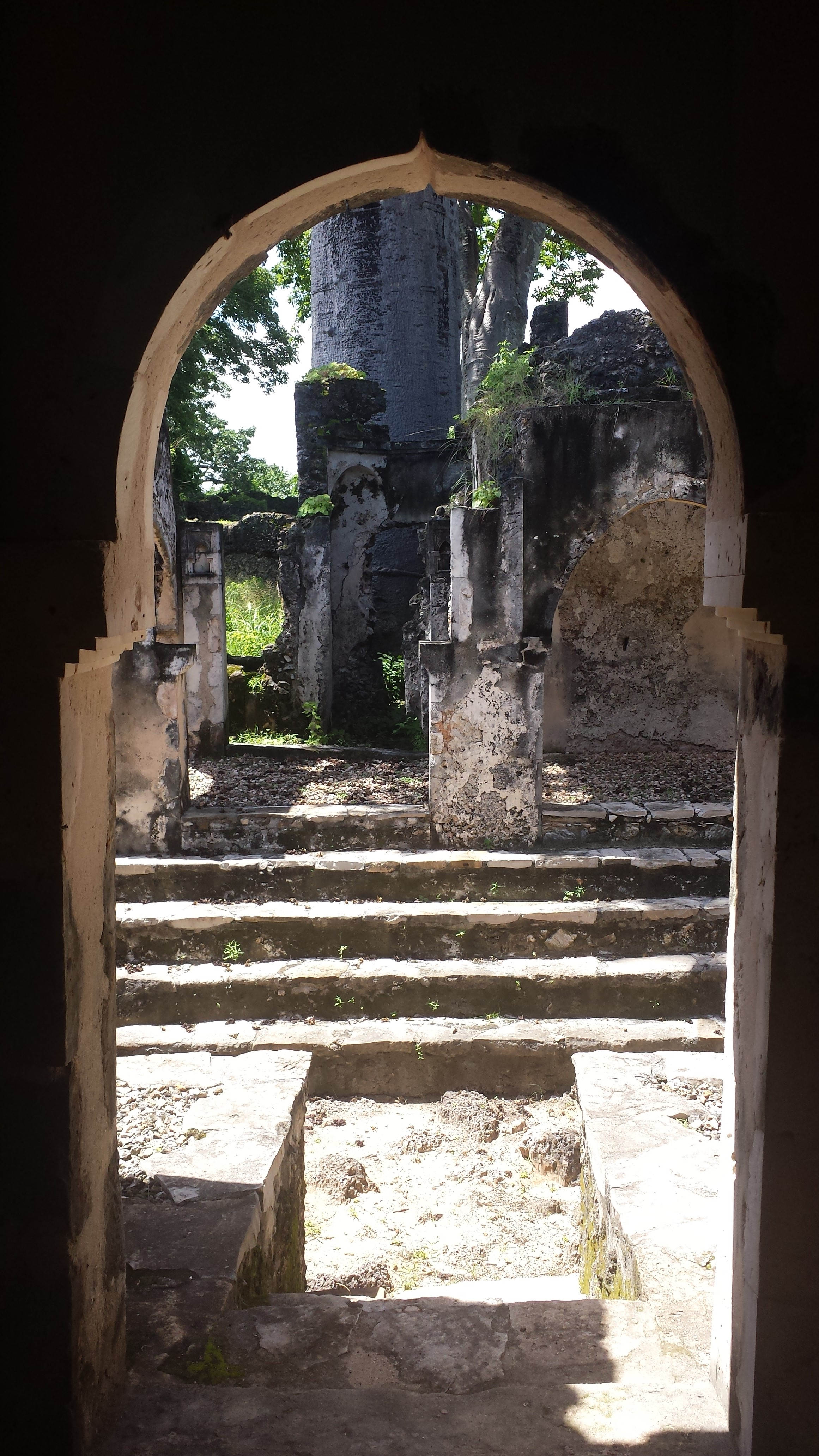 Inside the ruins of Songo Mnara Tanzania